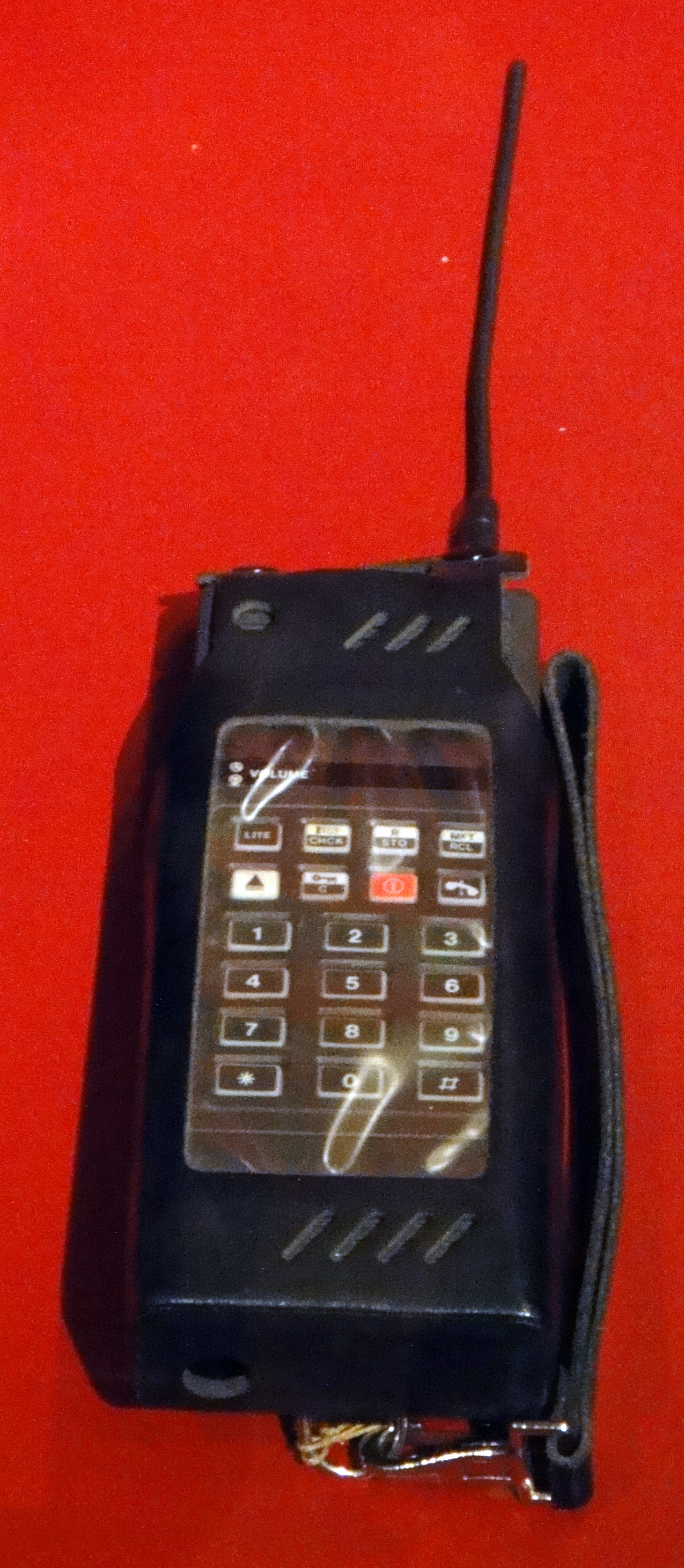 Technophone PC 107/3 "Natel C" mobile telephone, 1988.